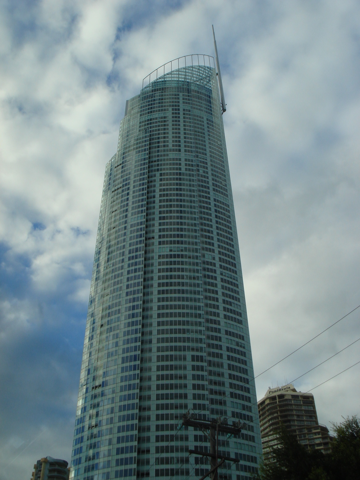 Q1 Tower, on the Gold Coast, Australia.